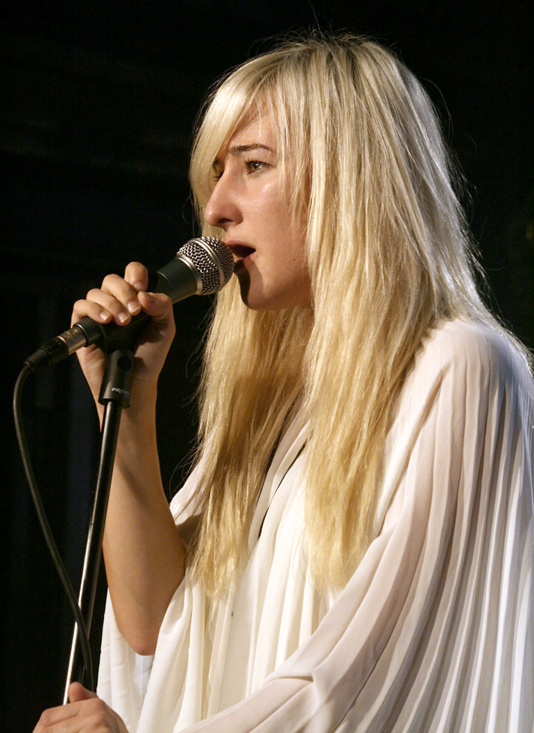 Zola Jesus during her concert at Flex at the Waves Vienna Music Festival & Conference 2011 in Vienna.